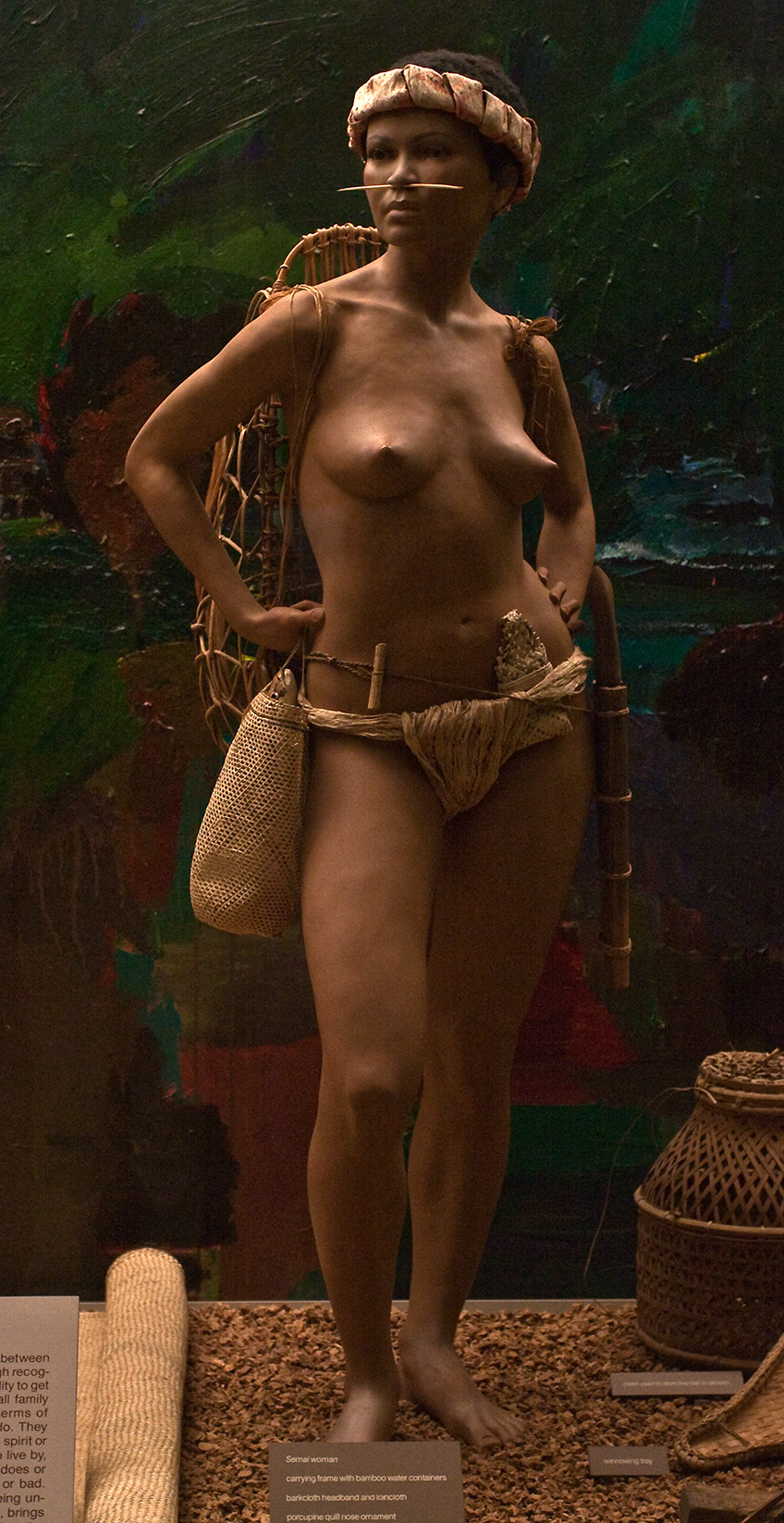 Sculpture of a Semai woman at the New York Museum of Natural History